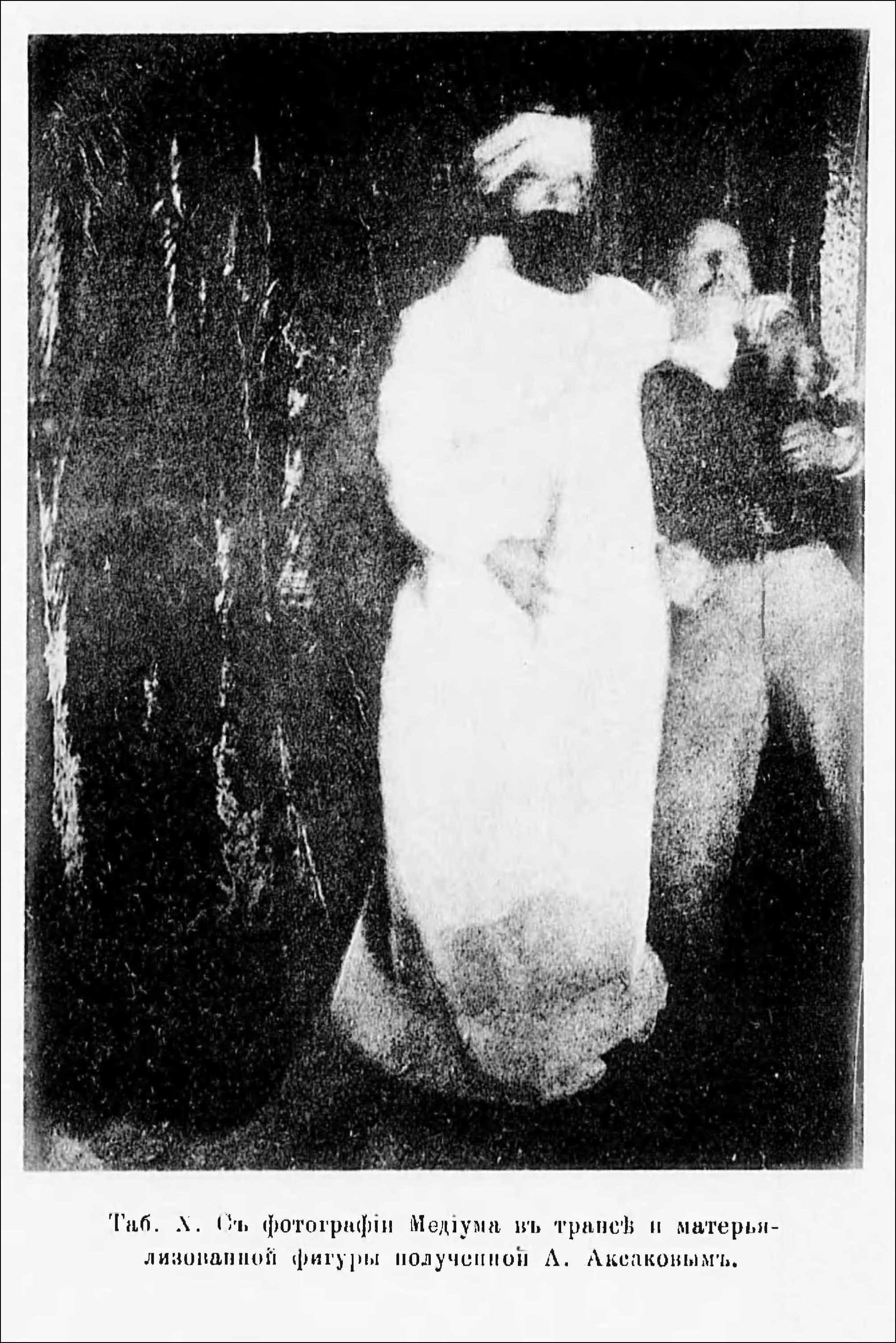 An illustration from Alexander Aksakov's book Animism and Spiritism.